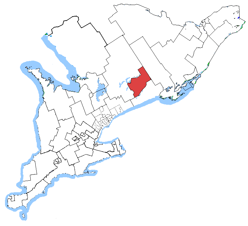 Map of the Peterborough electoral district. Based on Earl Andrew's maps, created by SimonP.